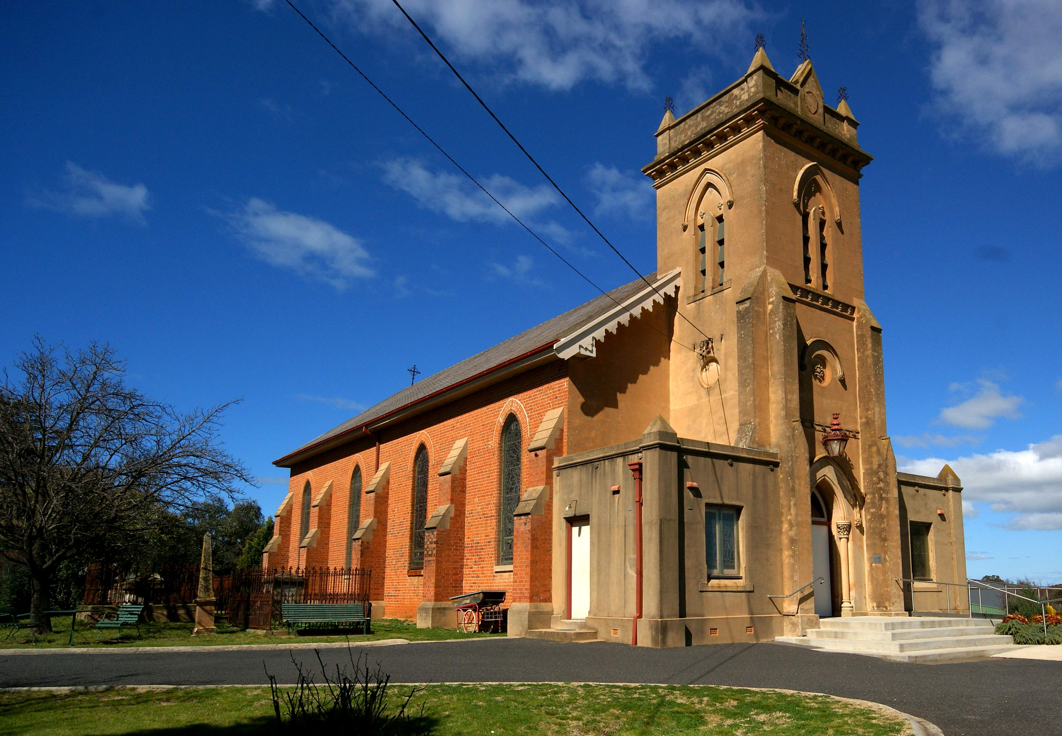 Built in 1835 to serve the Anglican parish of Kelso